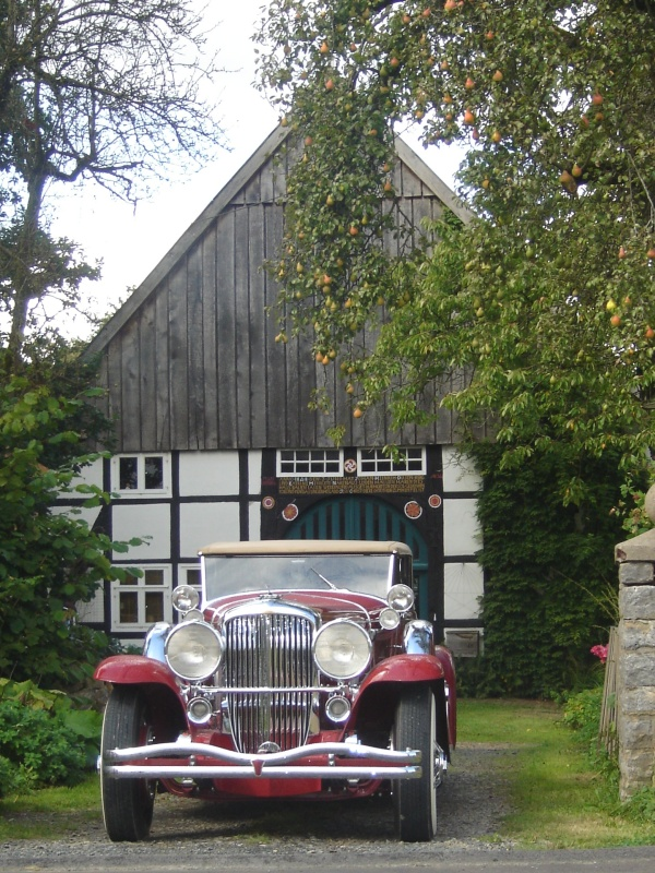 Duesenberg J Murphy Convertible Coupe infront of the historical HOUSE OF BIRTH of the famous car builders FRED & AUGIE DUESENBERG. The house is classified as an architectural monument and is situated in the village KIRCHHEIDE near the town LEMGO in nothern Germany. The farmhouse anno 1760 and the adjoining buildings were restaurated and nearly unchanged preserved. It´s the private home of the author.